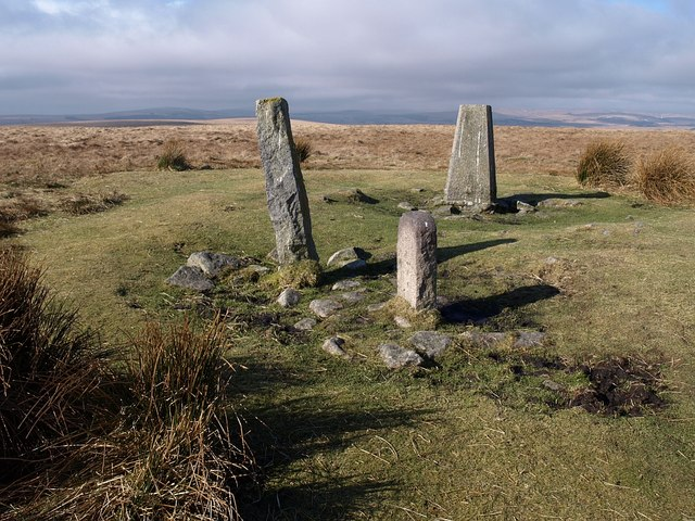 Ryder's Hill. Another view of the stones on the summit of 1181943. As Butler points out, surrounding peat growth has blurred the effect of the summit cairn, but he considers it "retains its shape well, a circular platform 30 m in diameter rising to a low mound 12m across at the centre, about 1.5m above ground level" (Butler, Jeremy: Dartmoor atlas of antiquities: Vol.4, the South-East, 1993).